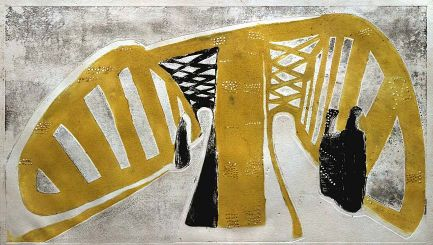 Height: 335 mm (13.18 in); Width: 595 mm (23.42 in) dimensions QS:P2048,335U174789;P2049,595U174789